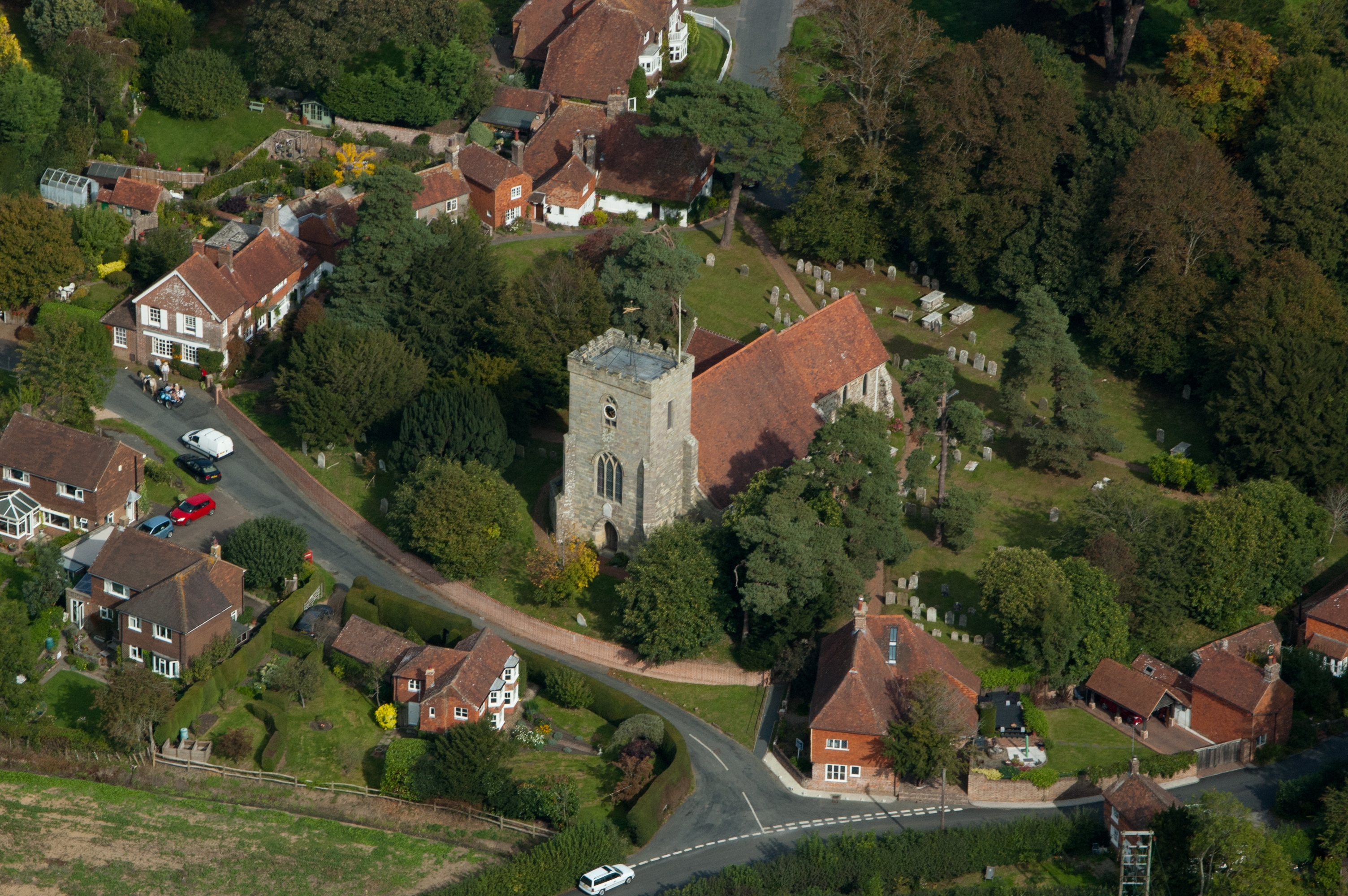 Aerial view of the Parish Church of St Peter and St Paul in Hellingly, East Sussex